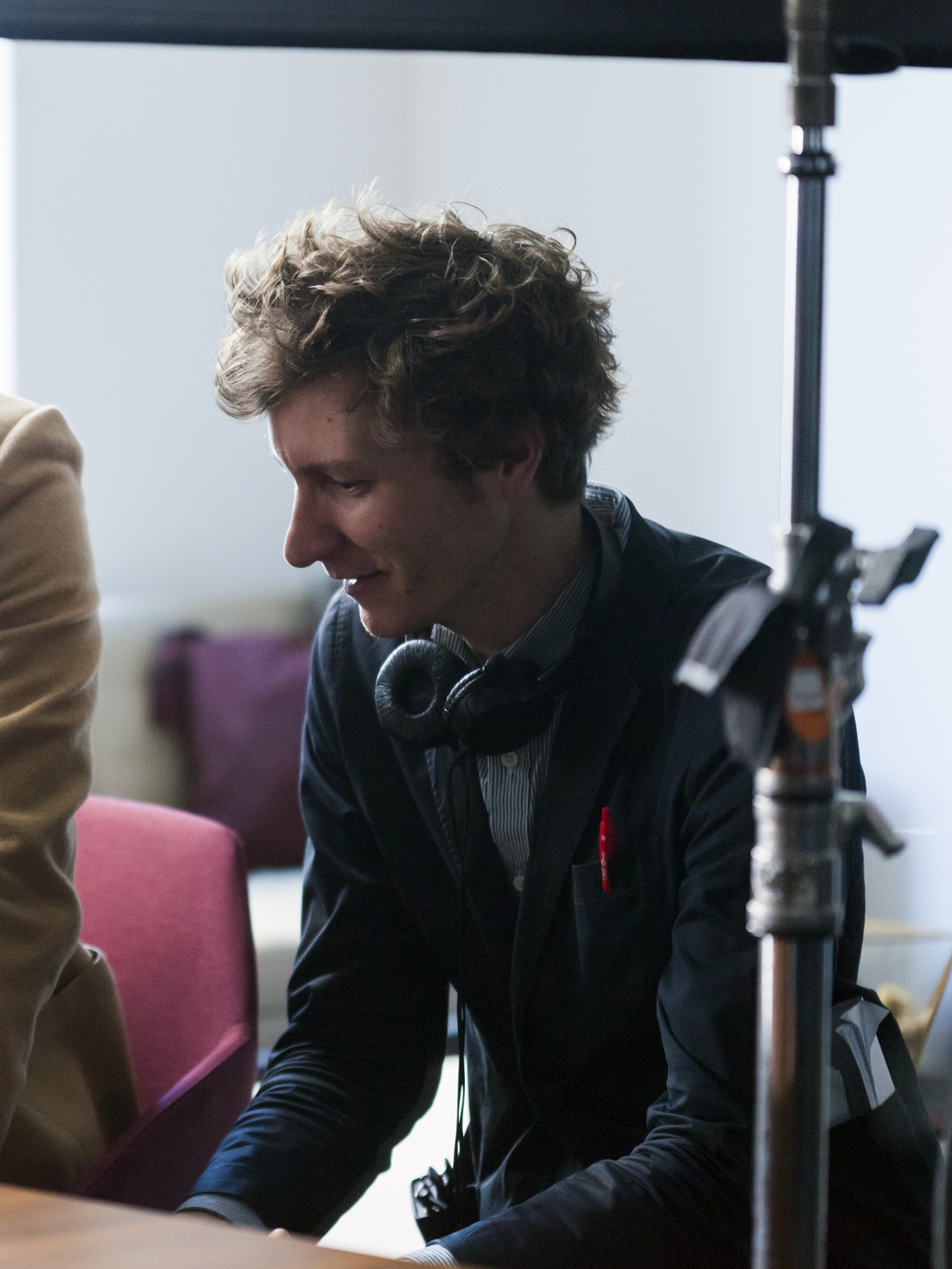 Photograph of Michael Tyburski on the set of the film "The Sound of Silence"